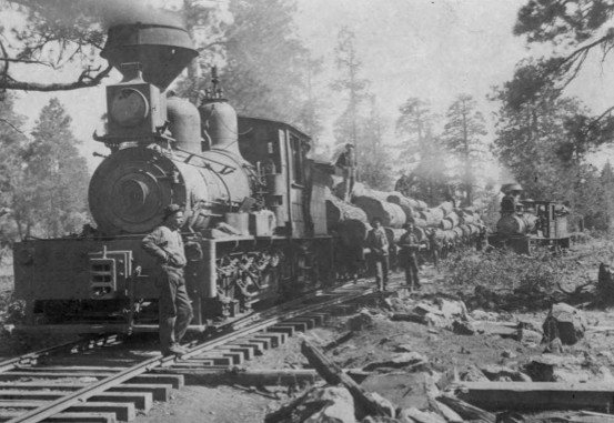 The Saginaw and Manistee logging company used railroads to clearcut the South Kaibab Plateau of ponderosa pines between 1897 and 1936.